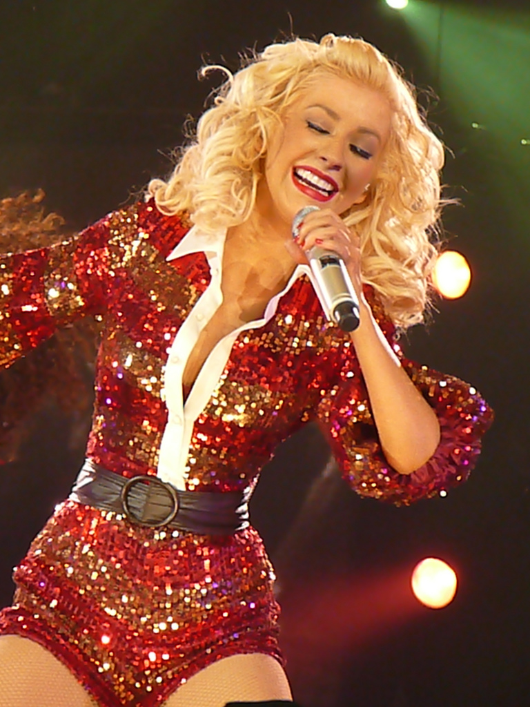 Christina Aguilera singing "What A Girl Wants" during the "Back to Basics World Tour"